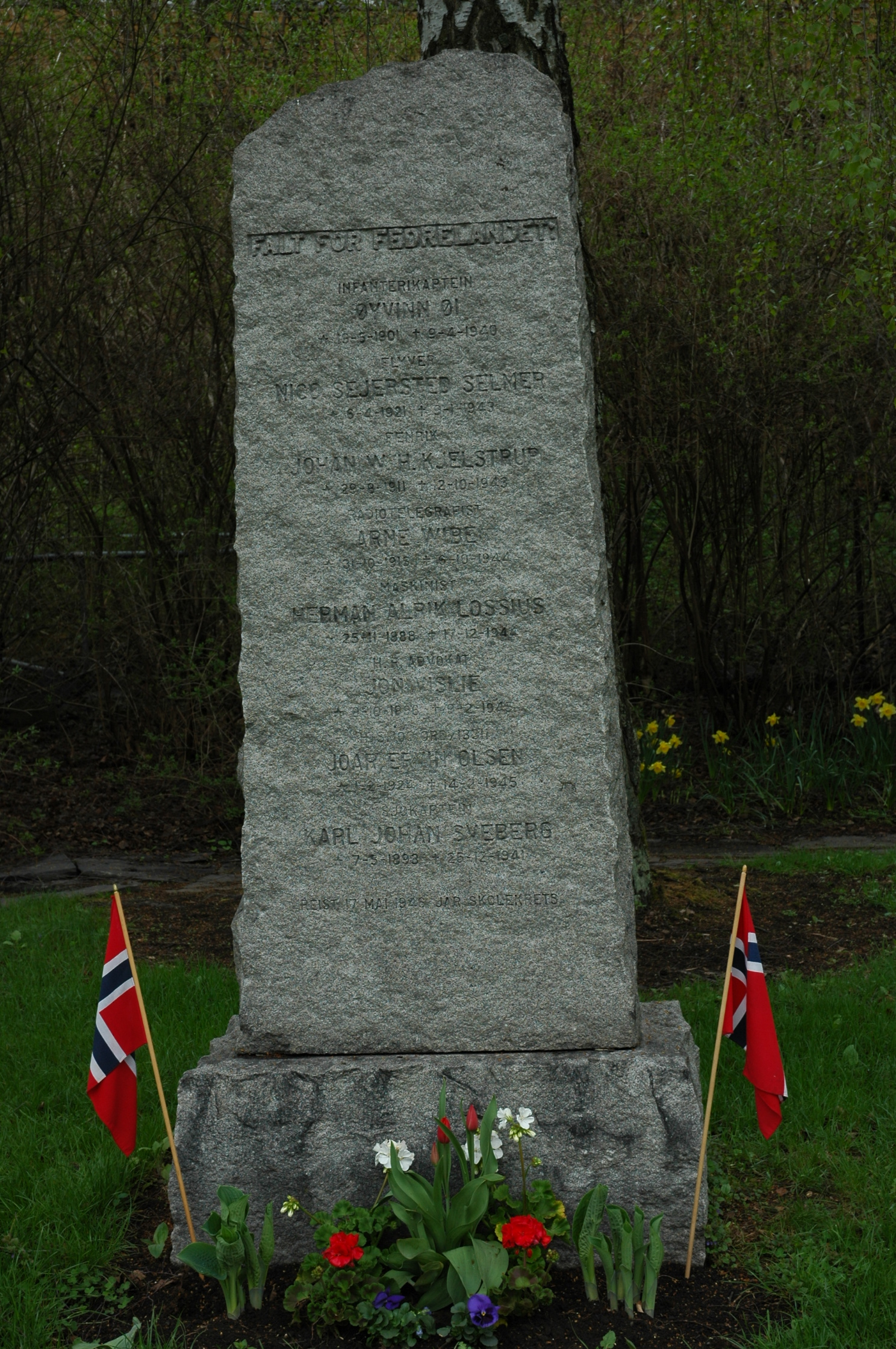 Memorial over fallen Norwegians 1940-1945 from Jar in Norway